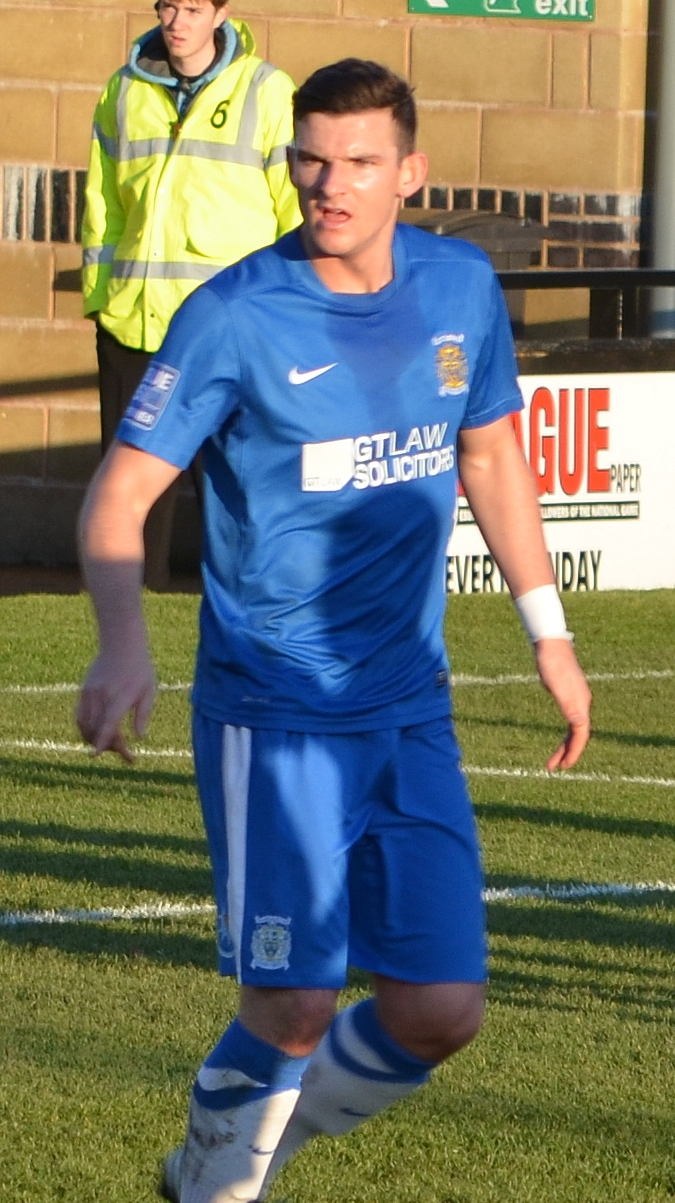 Sean Newton playing for Stockport County against Forest Green Rovers at The New Lawn, Nailsworth on 10 November 2012